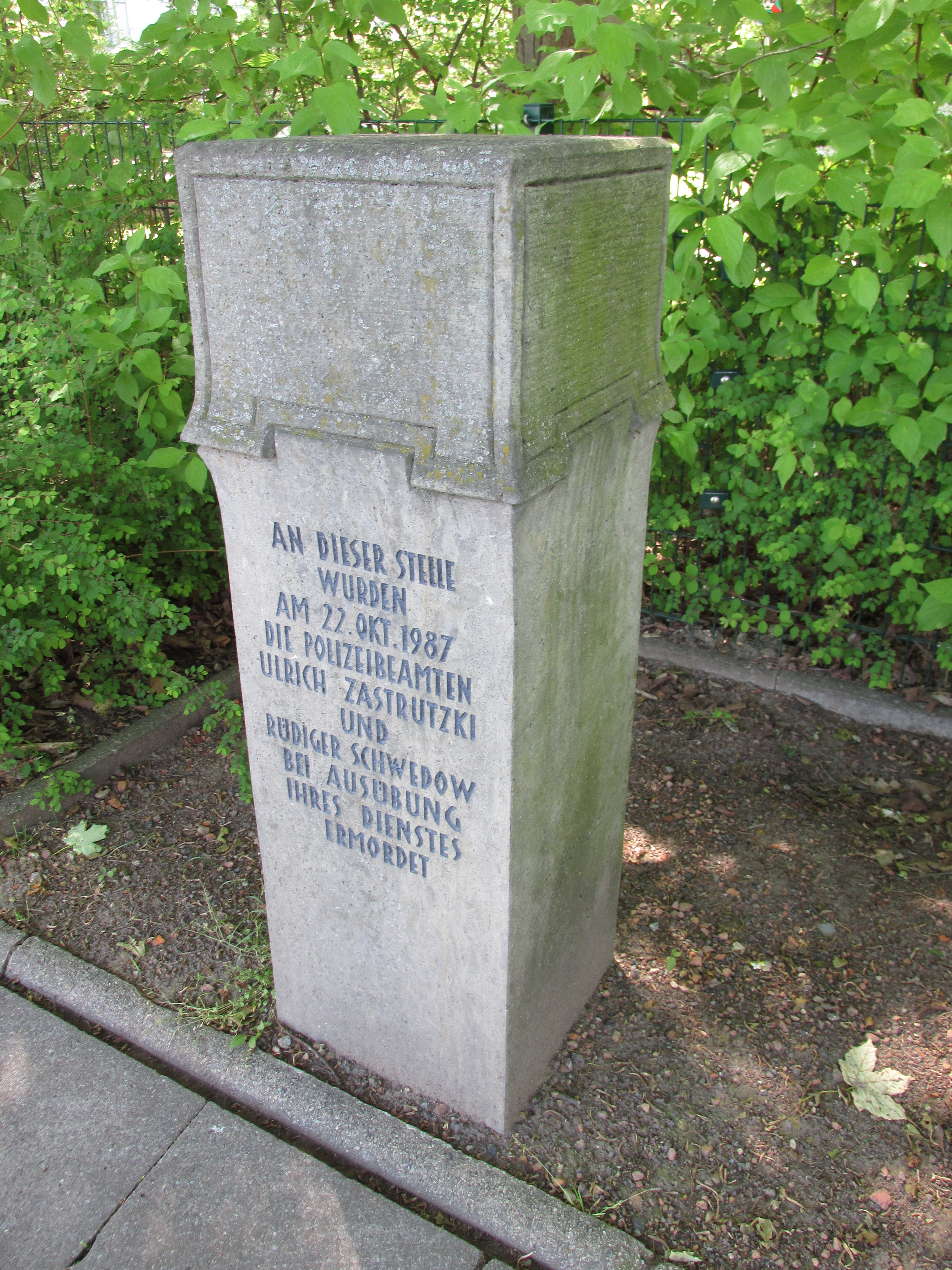 Memorial for Ulrich Zastrutzki and Rüdiger Schwedow at Brabeckstraße 84, Hanover, Germany check usage